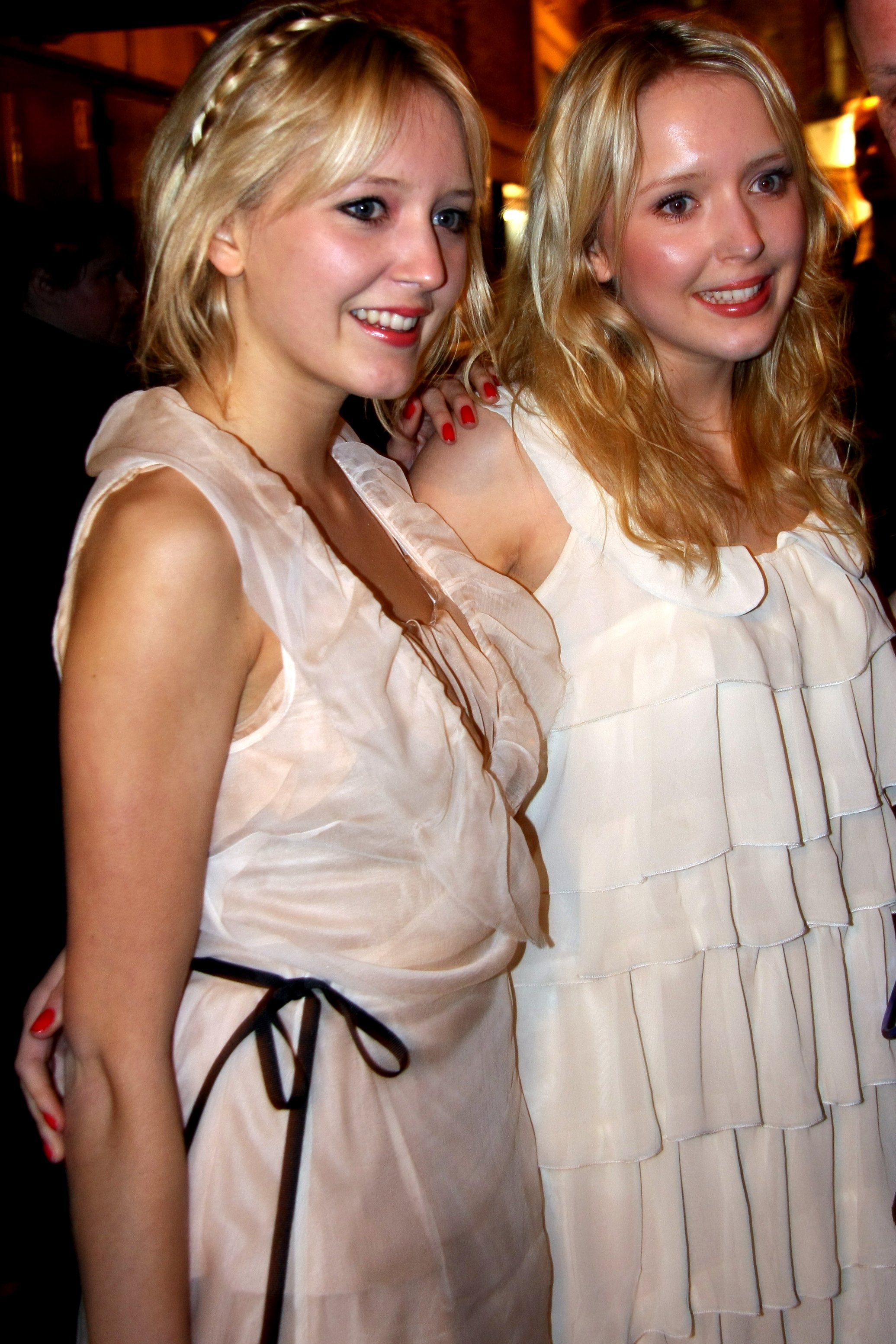 Sam and Mandy Marchant at the premiere of Fool's Gold at the Vue cinema in London's Leicester Square.